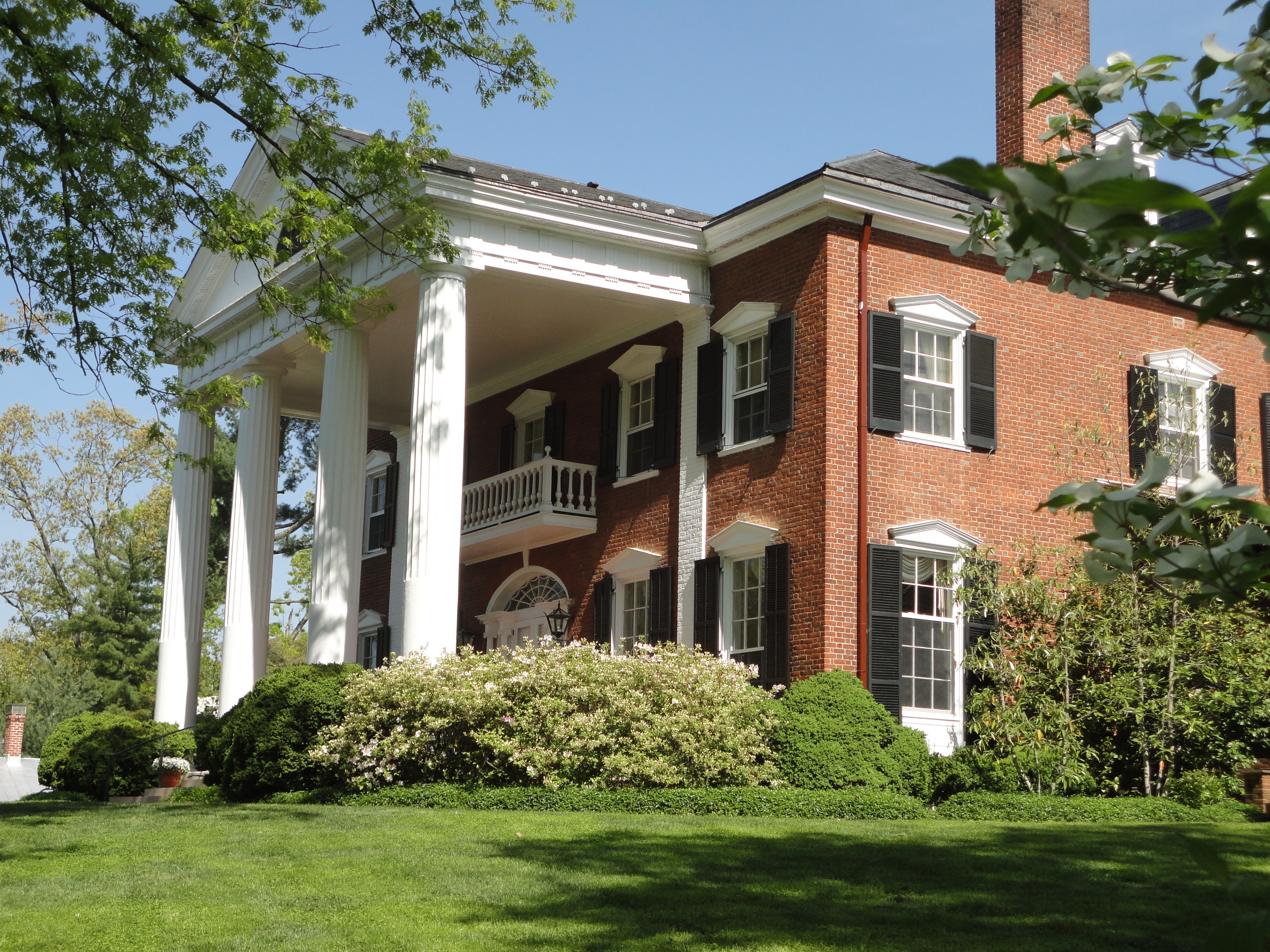 Home of President of the University of Virginia. 1909